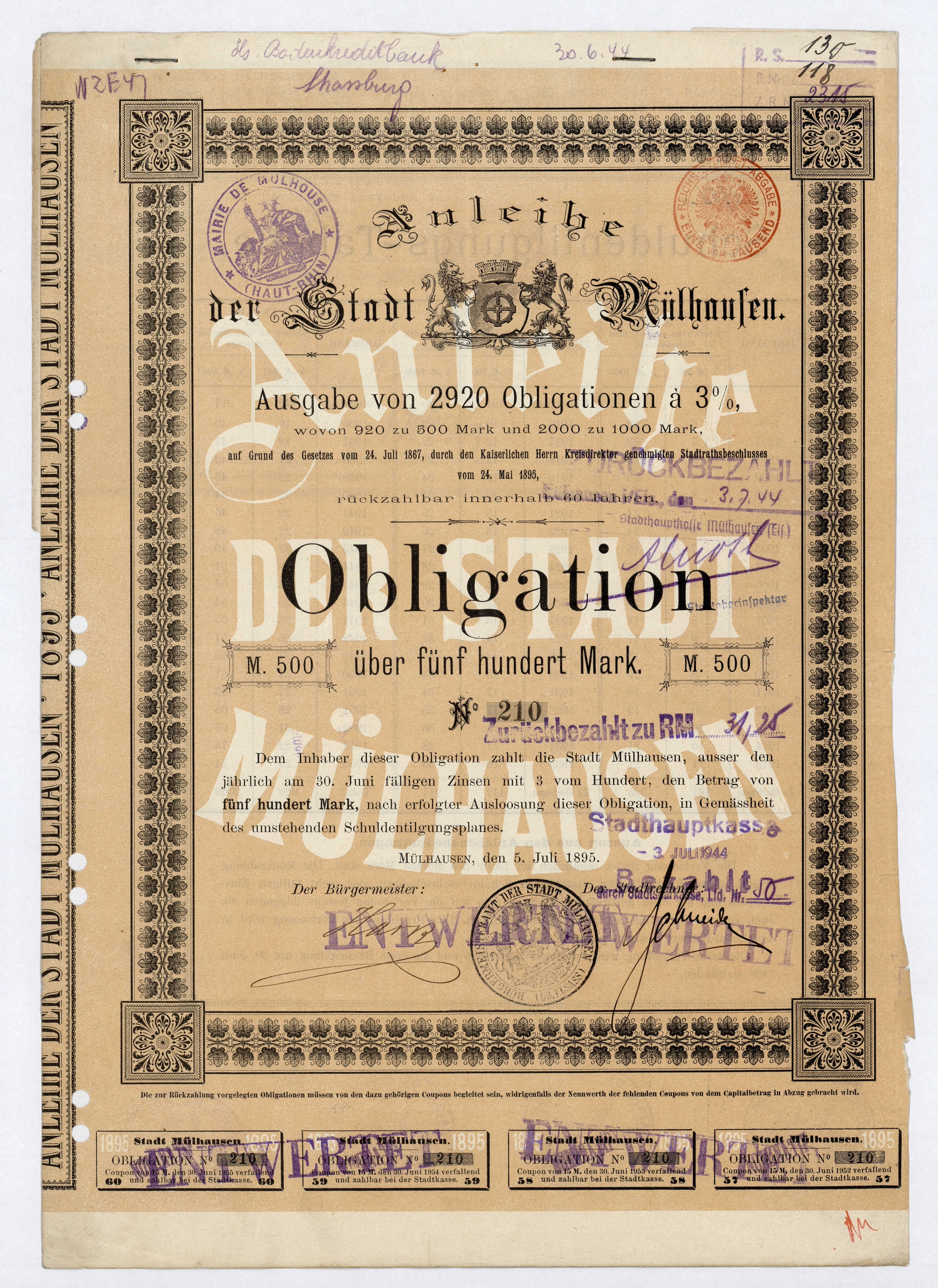 Bond of the City of Mulhouse, issued 5. July 1895